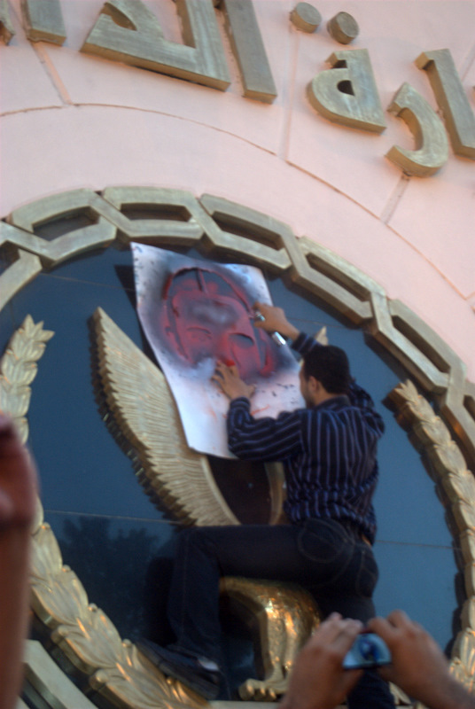 Spraying Khaled Said's stencil on the Ministry of Interior Gates